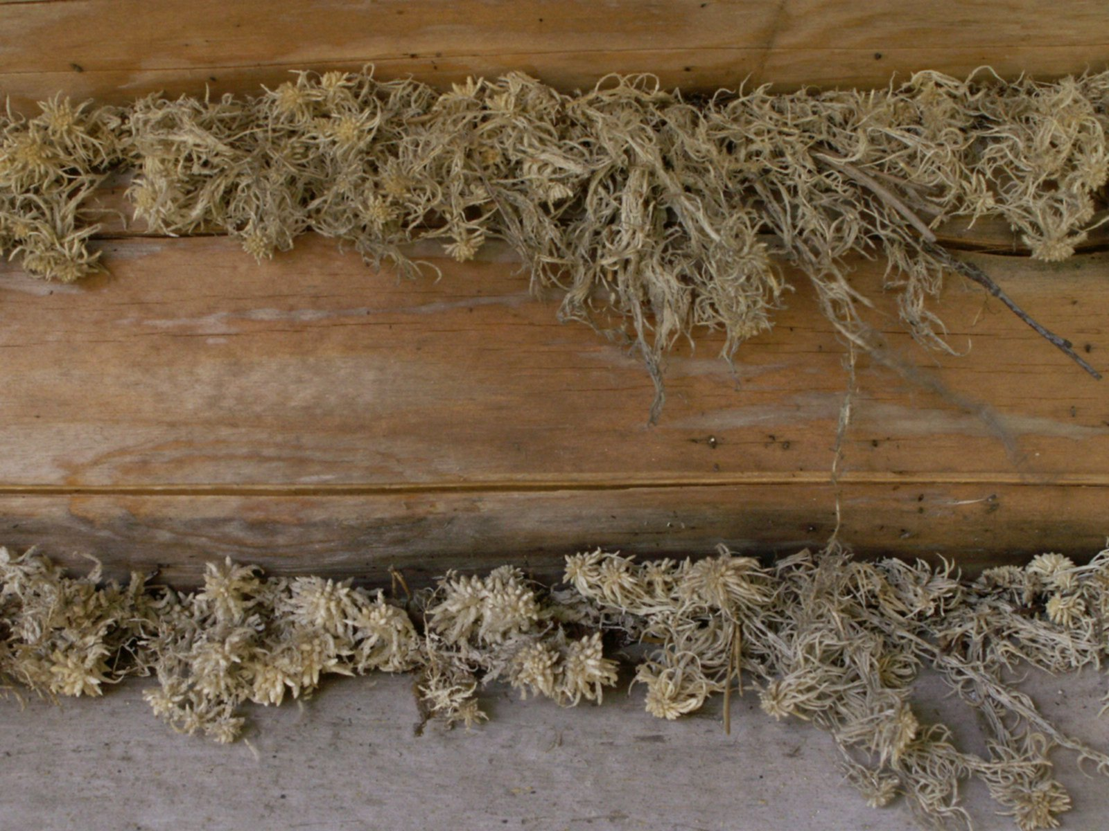 Peat moss used as joint material in log building. Here : a sauna in Lituania